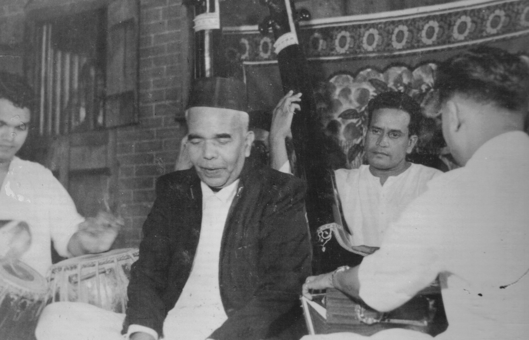 Bade Guru with Bhimsen Joshi